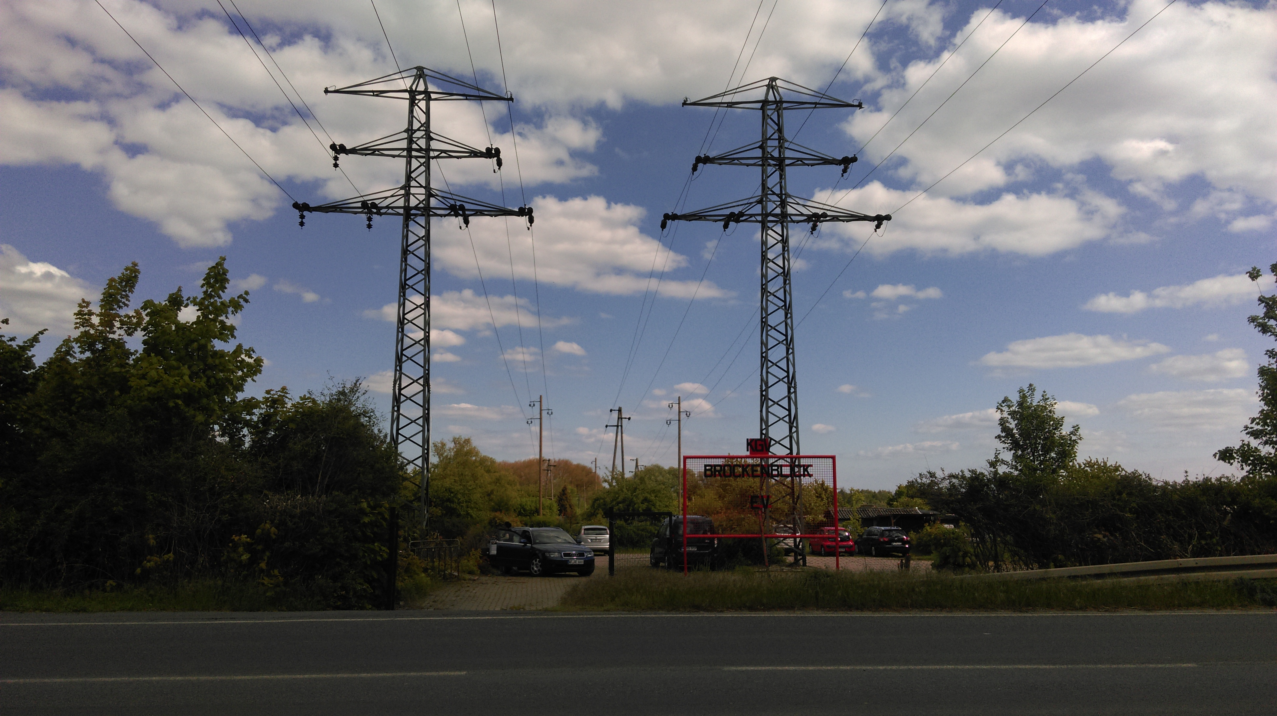 Minor lines on large elextricity pylons with unused additional traverse for 2 earth wires. Lines are continued on wooden poles. Left pylon: Circuit 1 unused. Circuit 2: to Börßum Genossenschaft. Right pylon: Circuit 3 to Börßum Wasserwerk. Circuit 4: To a trafo station close to railway connection Braunschweig - Vienenburg. At Heiningen garden colony Brockenblick.